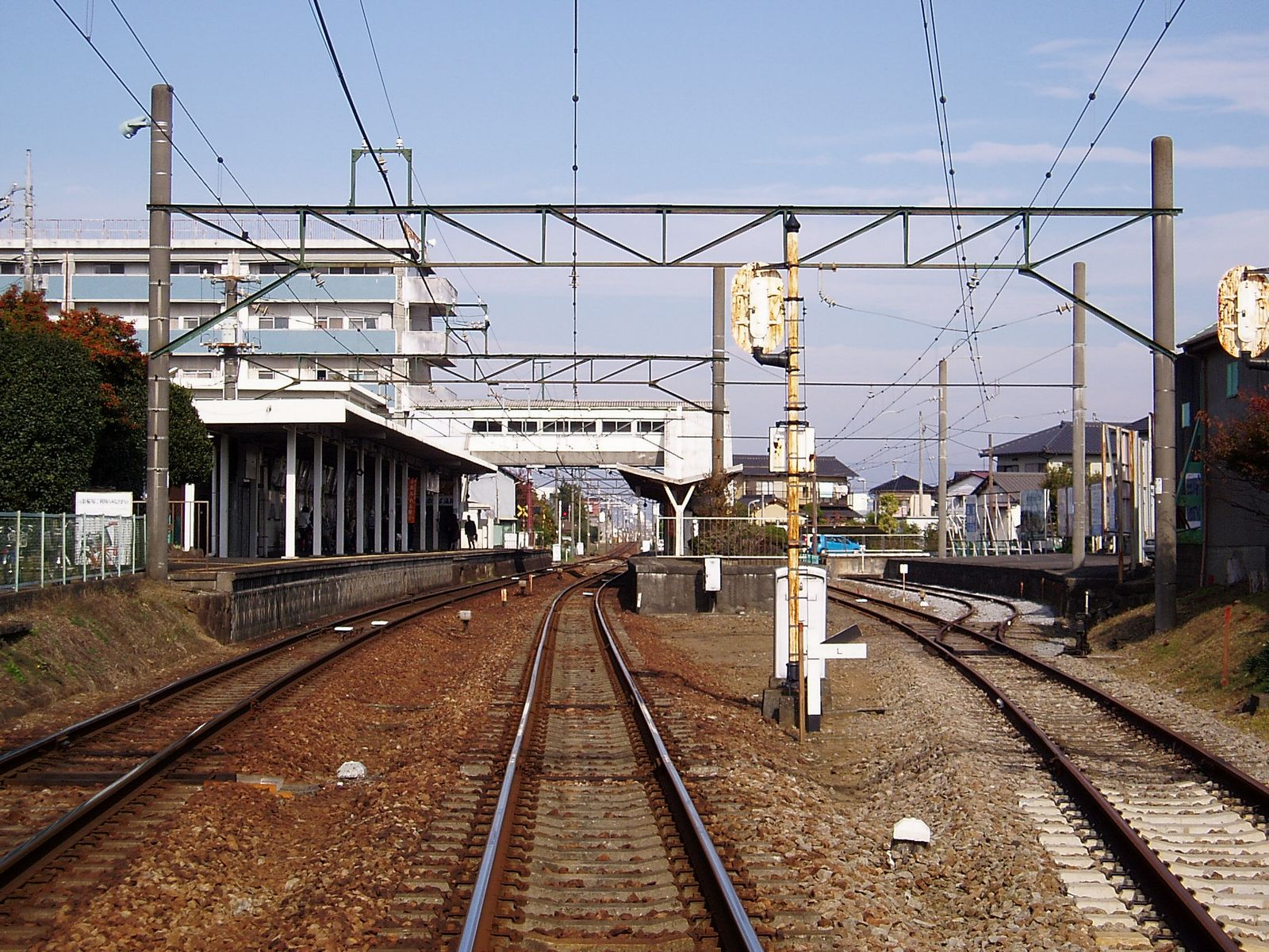 Isuhakone Railway Company, Izu-Nagaoka Sta. 2007.11.26 Photo by Cassiopeia_sweet.